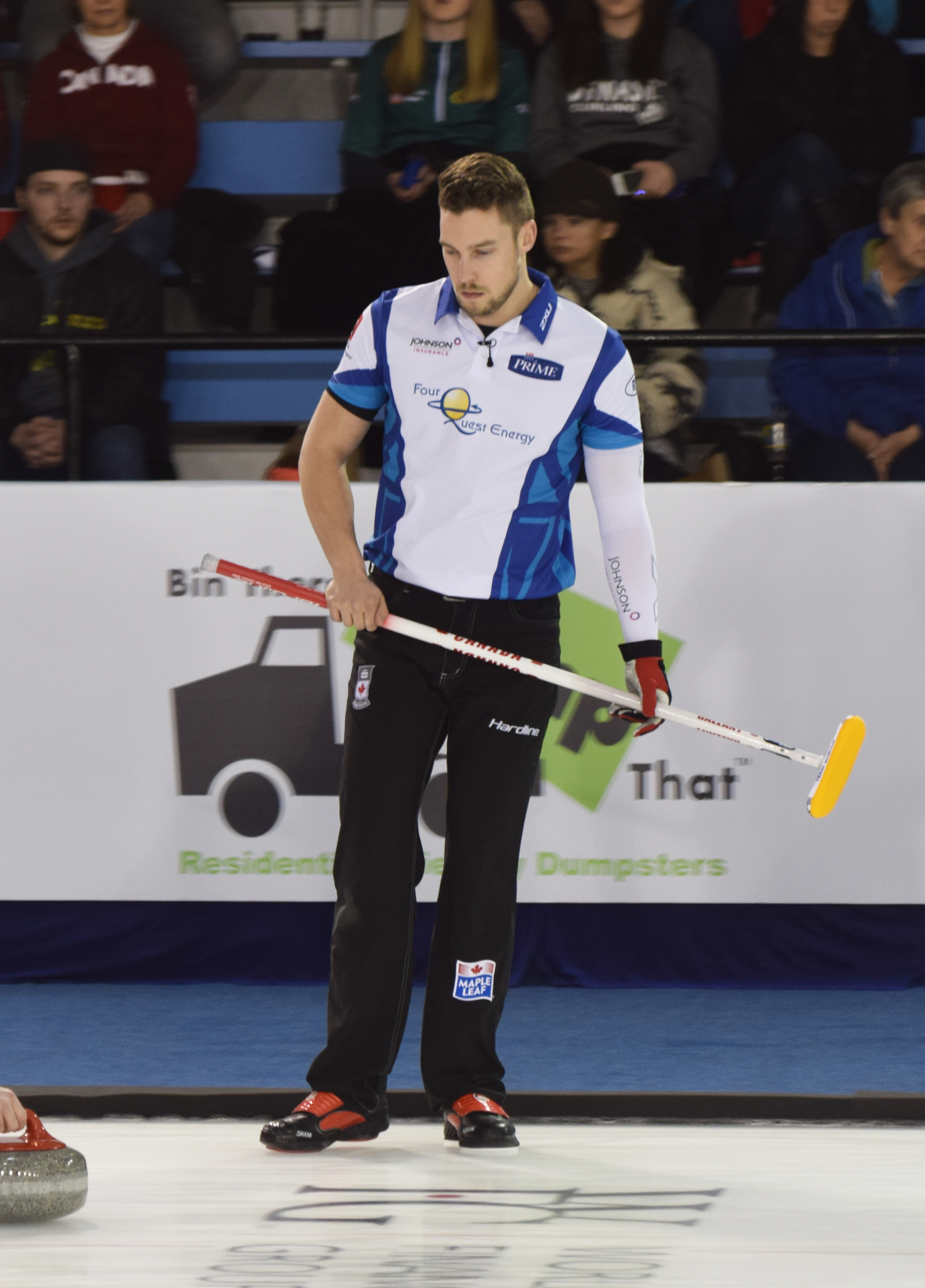 Brett Gallant at the 2018 Elite 10 Grand Slam of Curling event in Winnipeg, Manitoba.